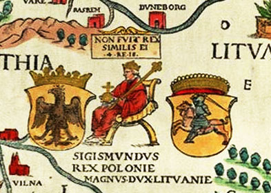 Belarus and Baltic countries on Carta Marina